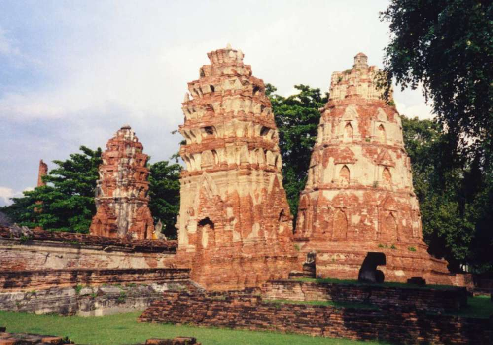 Ruins of Wat Mahatat, Ayutthaya historical park, Thailand Photo taken by User:Ahoerstemeier on December 5 2002.